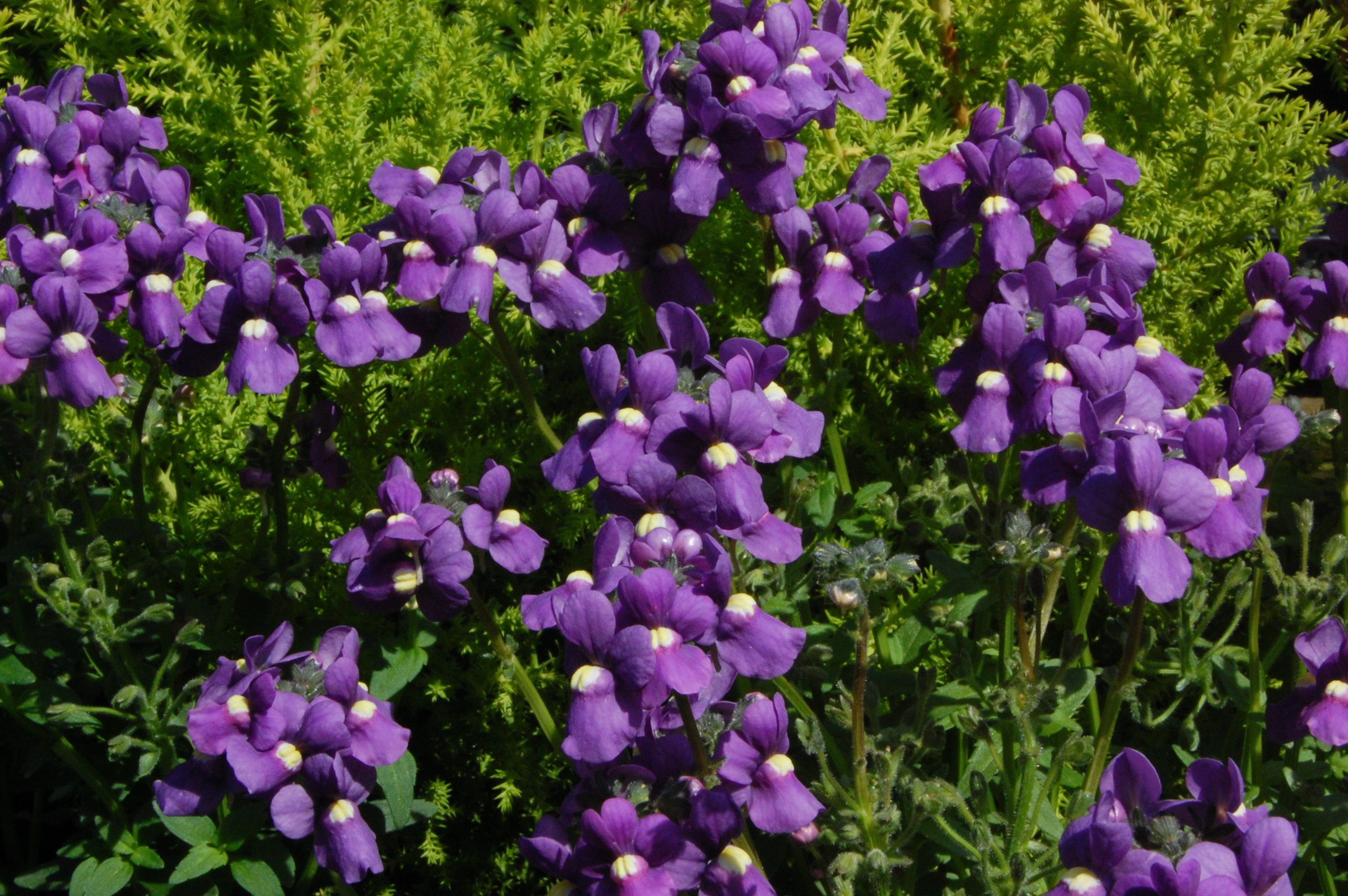 Nemesia 'Fleurie Blue' on sale at a garden centre in the English midlands.